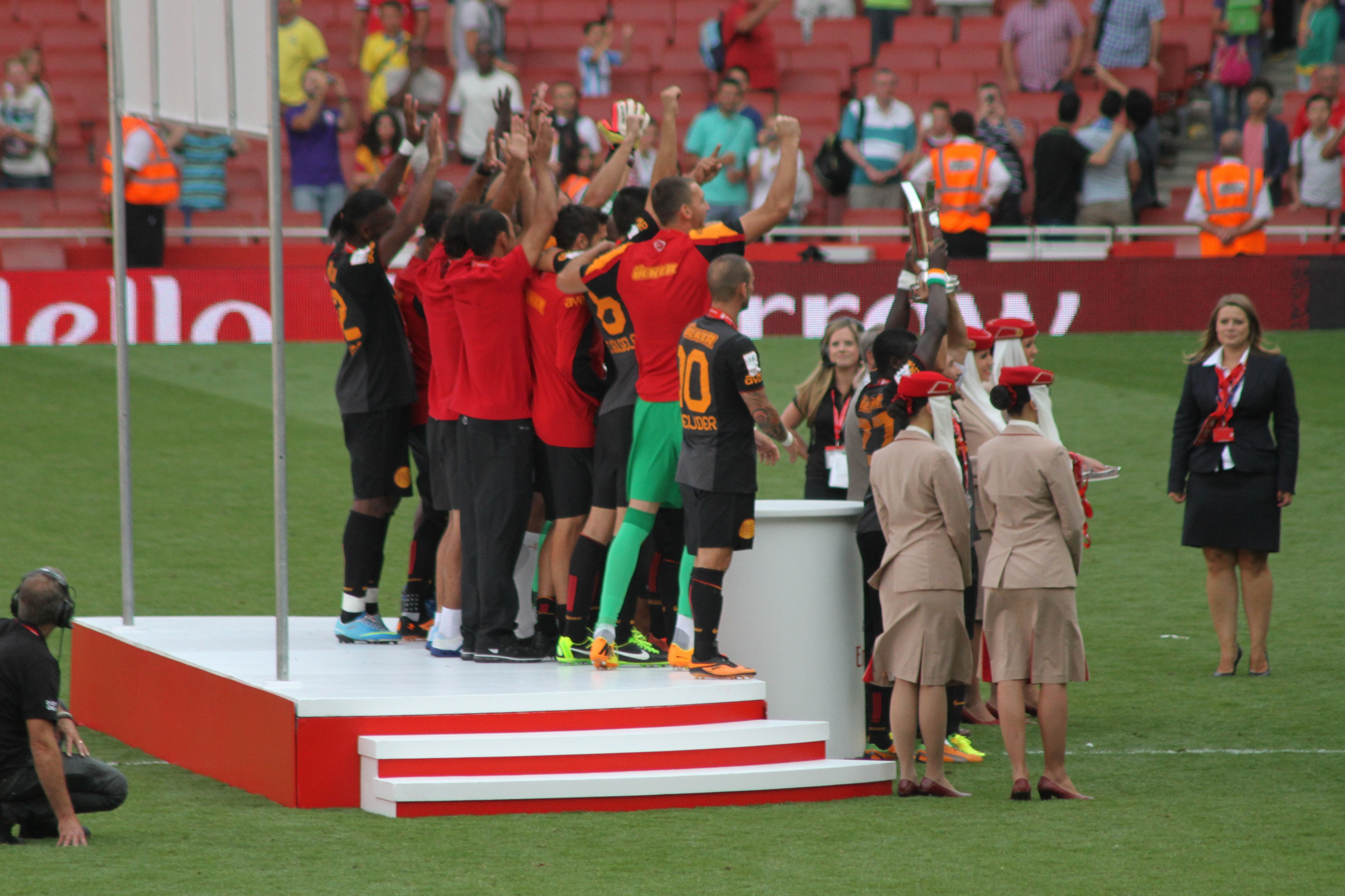 2013 Emiretes Cup Galatasaray celebrate winning!